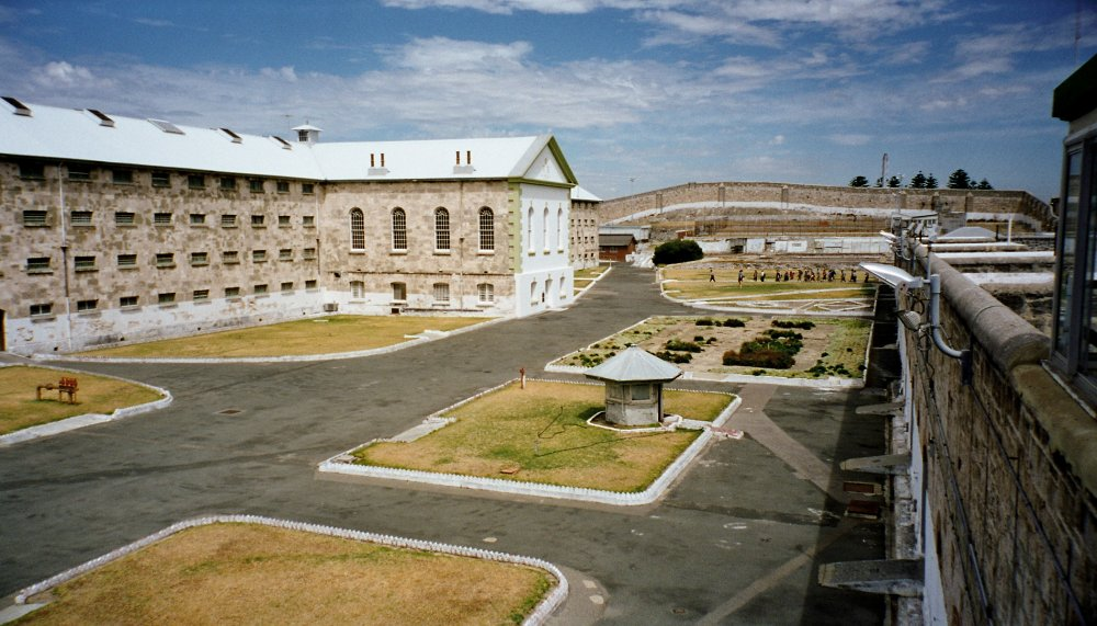 Yard at Fremantle Prison